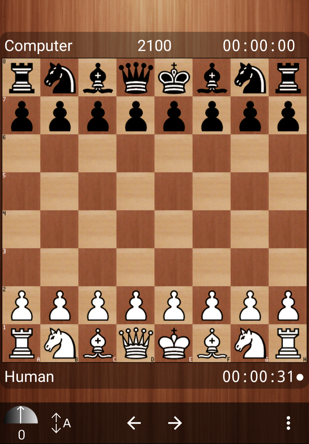 Basic layout of Mobila Chess